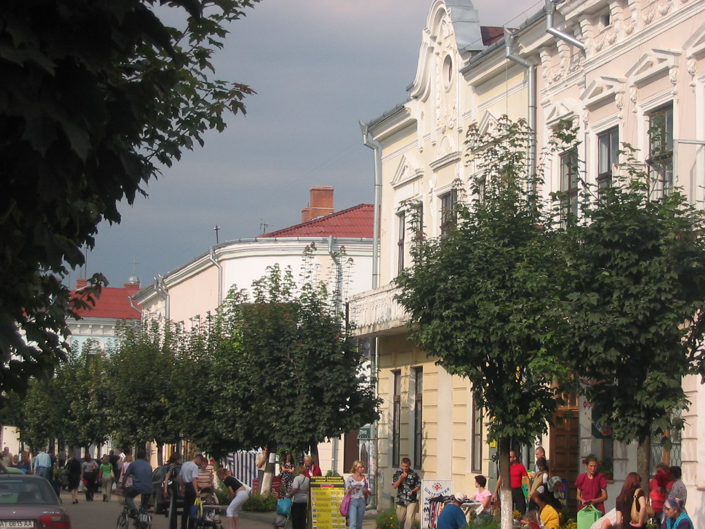 Central street of Kolomyia (Коломия), city in Ivano-Frankivsk oblast, western Ukraine.